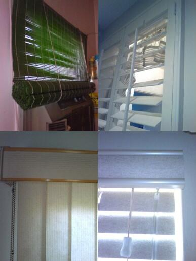 Some pictures of window blinds I took and put together.